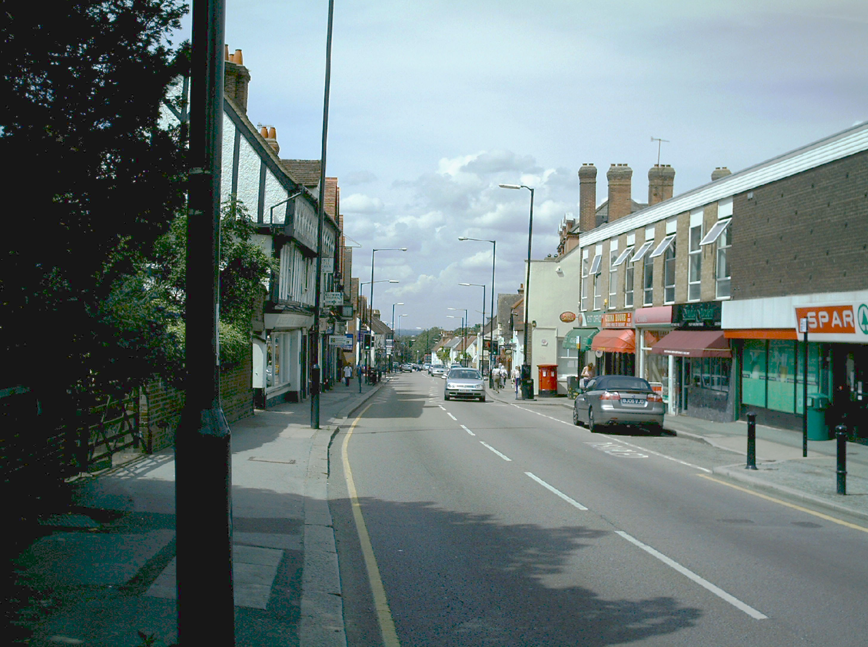 High Street, Bushey, Hertfordshire, England